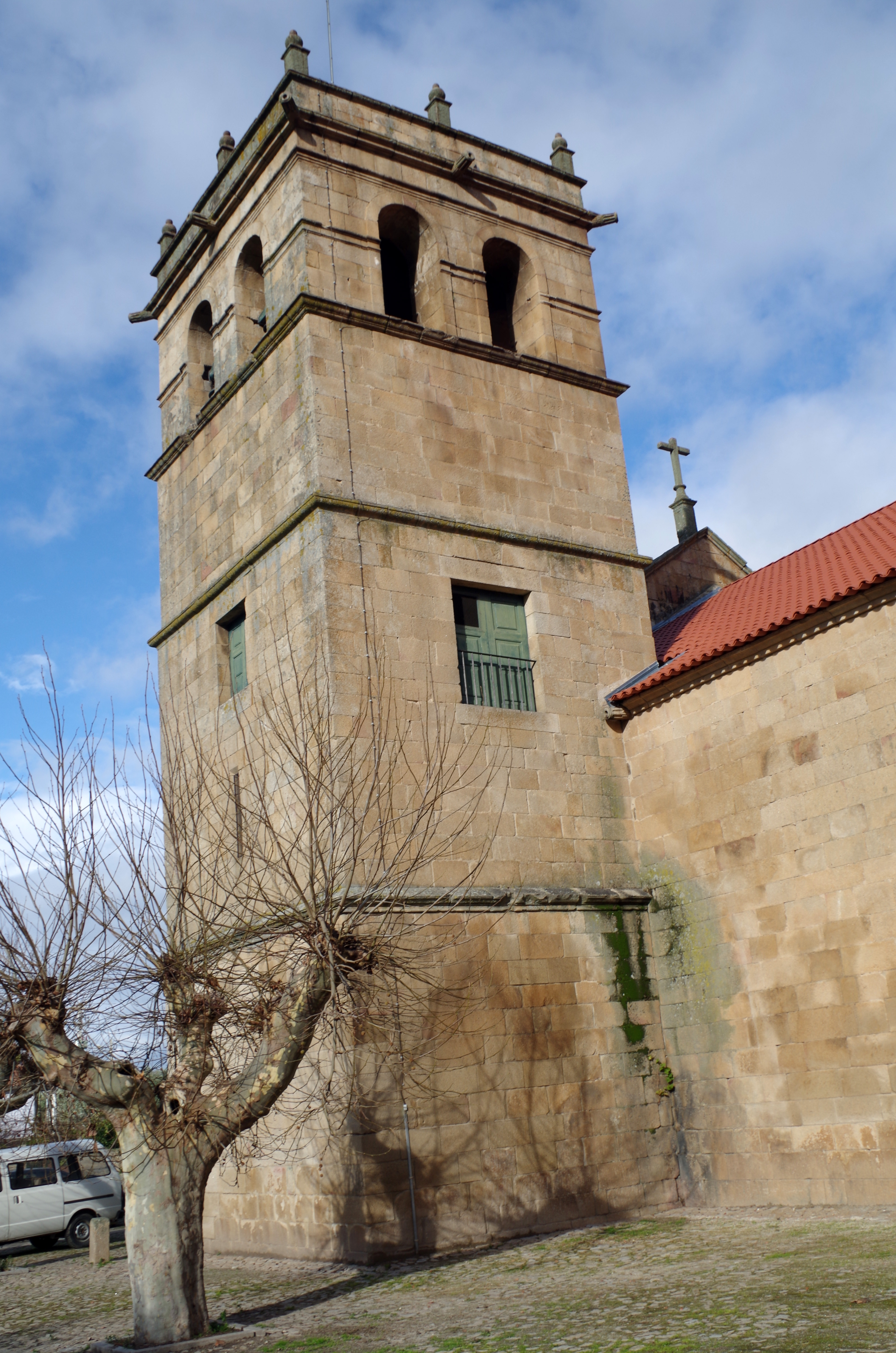 Parish church of Our Lady of Angels in Almendra (Guarda, Portugal).